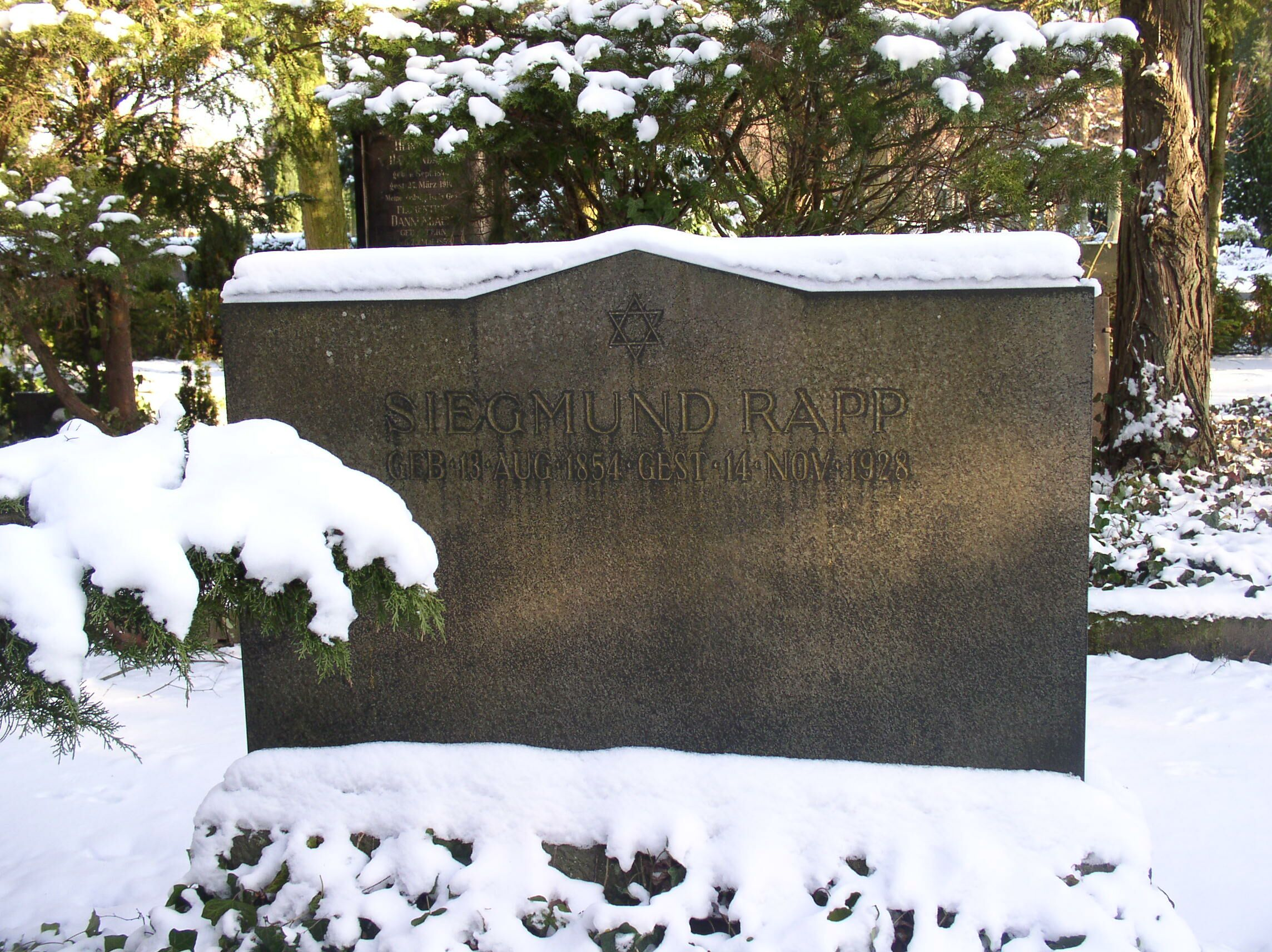 Jewish Cemetary in Lippstadt, Germany